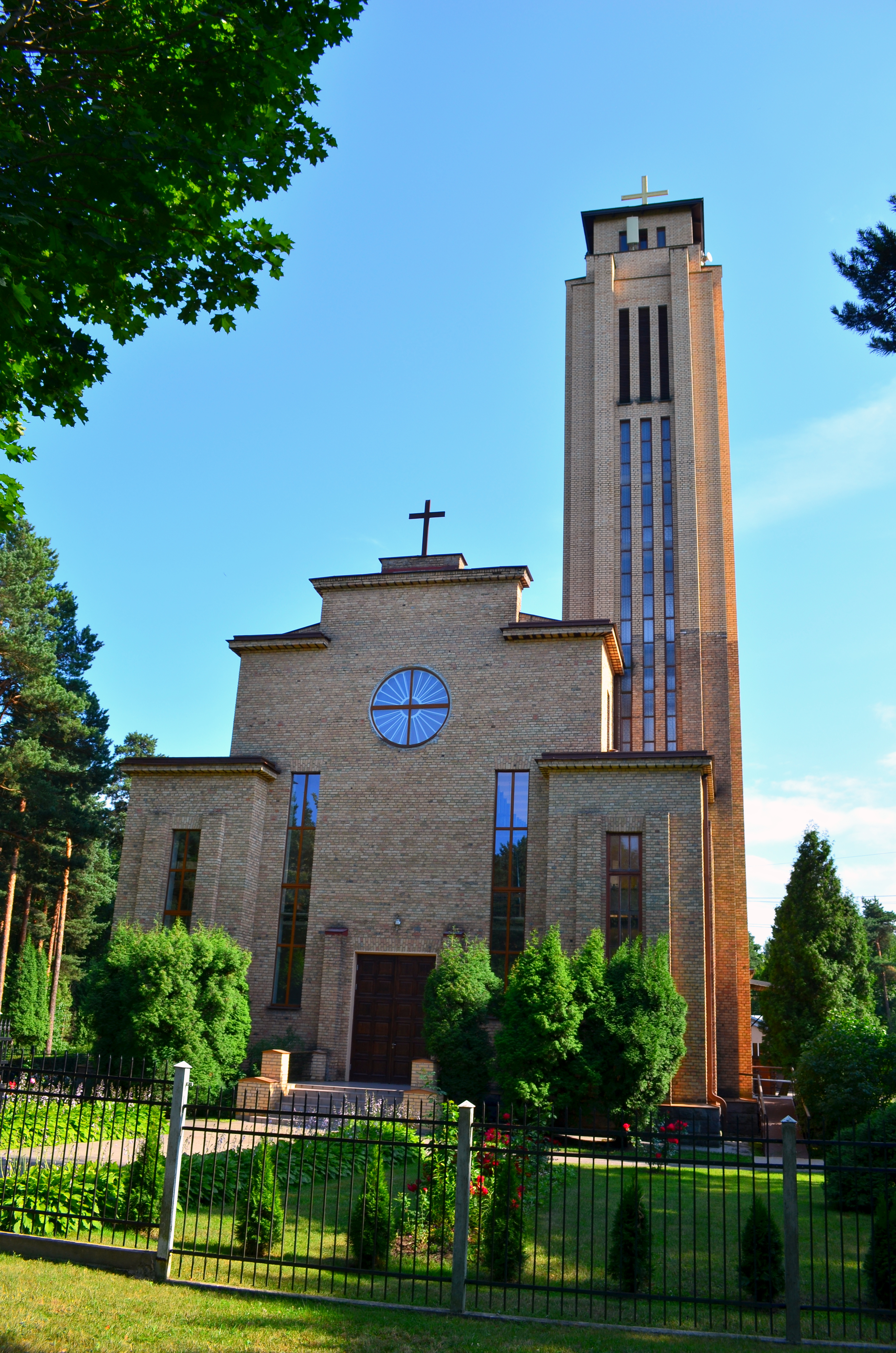 Christ the King Roman Catholic Church in RigaLatviešu: Rīgas Kristus karaļa Romas katoļu baznīca